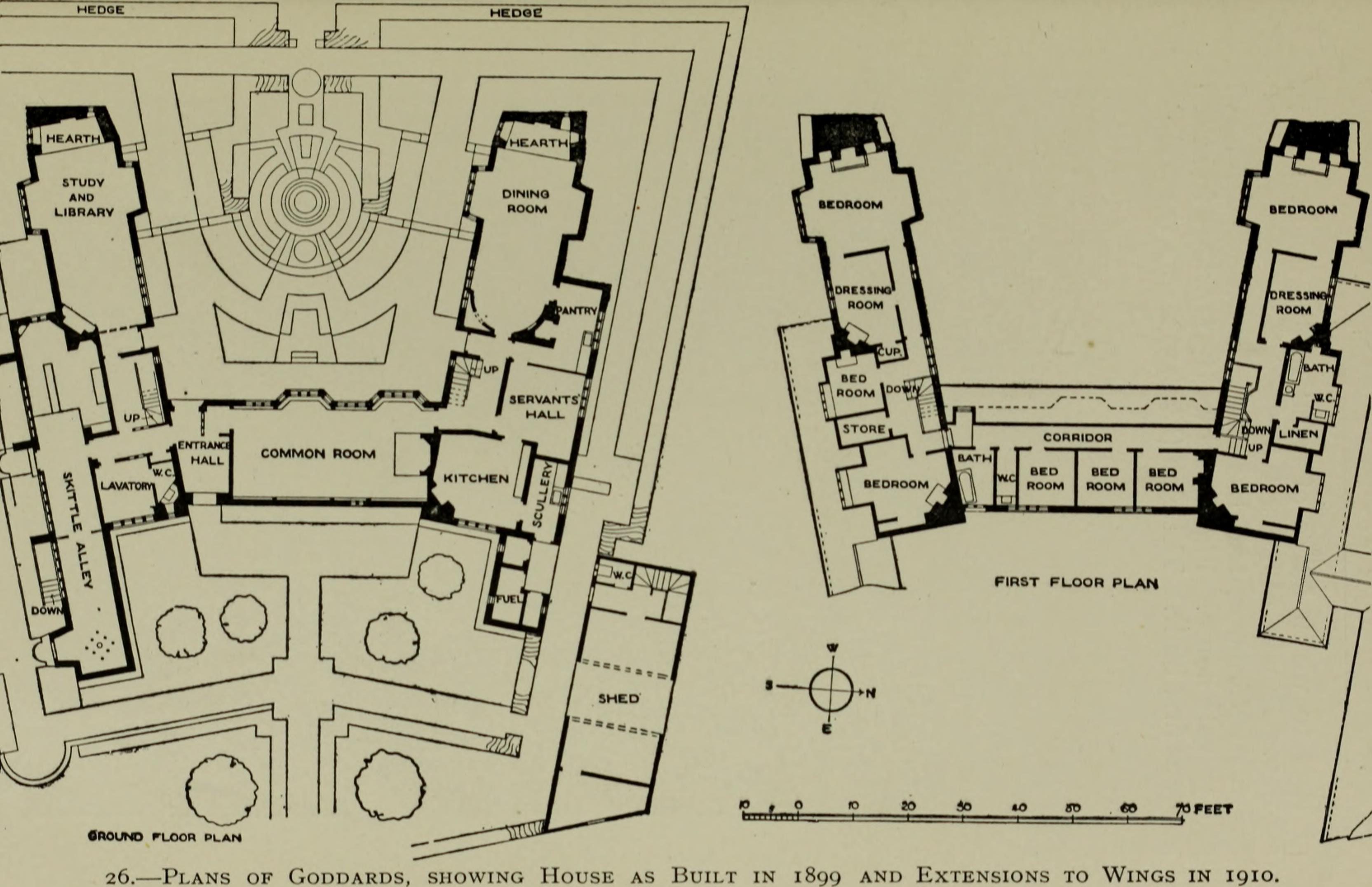 Title: Lutyens houses and gardens Year: 1921 (1920s) Authors: Weaver, Lawrence, 1876-1930 Subjects: Lutyens, Edwin Landseer, Sir, 1869-1944 Architecture, Domestic Gardens Publisher: London, Offices of "Country life", ltd. (etc.) New York, C. Scribner's Sons Text Appearing Before Image: 25.—Orchards: A Garden Archway. Text Appearing After Image: 43 44 Lutyens Houses and Gardens of Rest to which ladies of small means might repair forholiday. It was also used for invalid soldiers after theSouth African war, and has since been altered somewhatas a private house. Fig. 29 shows the entrance front of thehouse as first built. The plan (Fig. 26) shows the additional